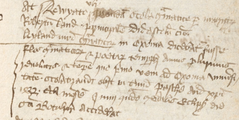 Willelmus Worcestre, Itinerarium (MS. CCCC Parker 210) p. 95 ima